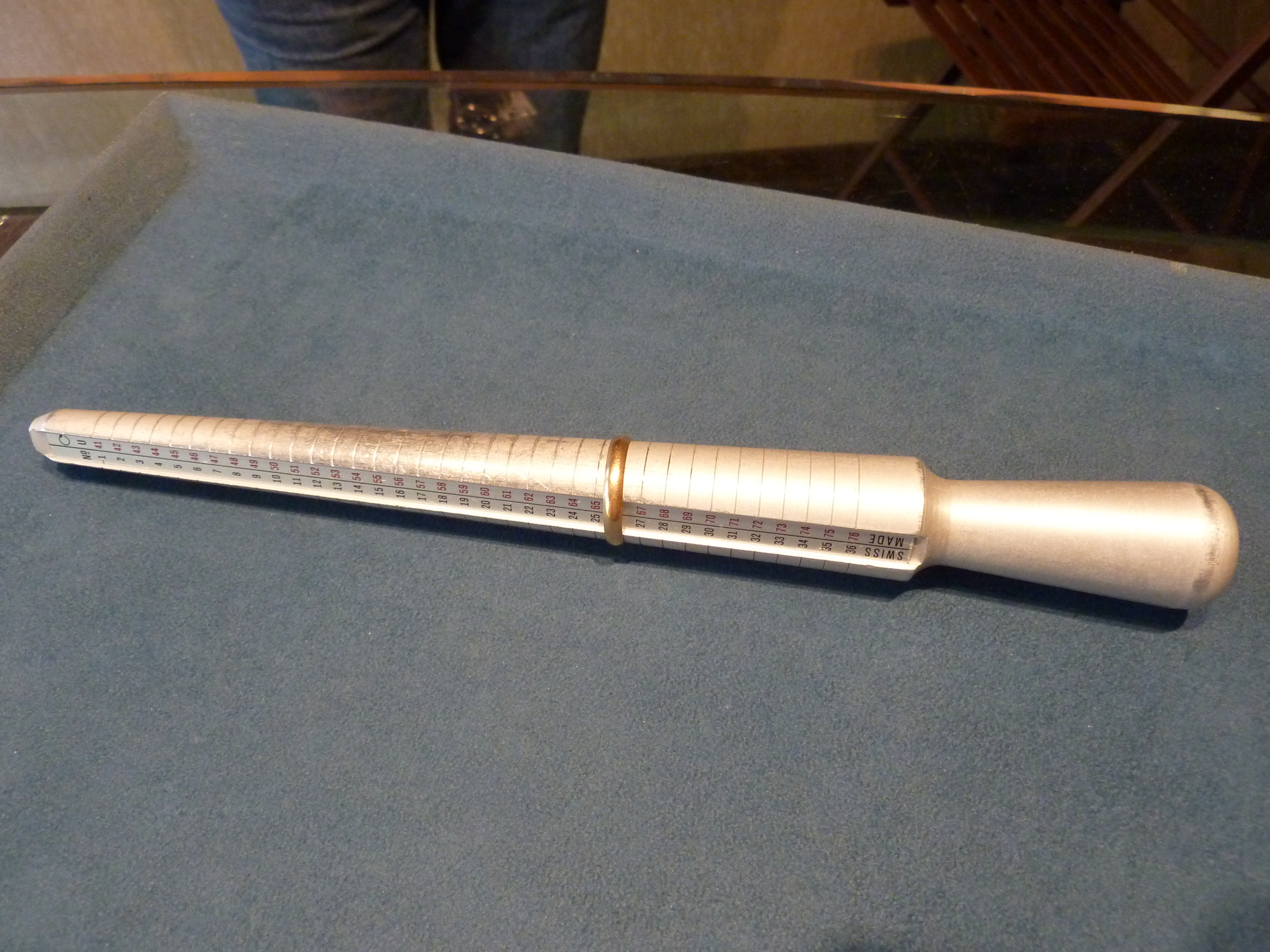 ring sizer stick (jewellery)